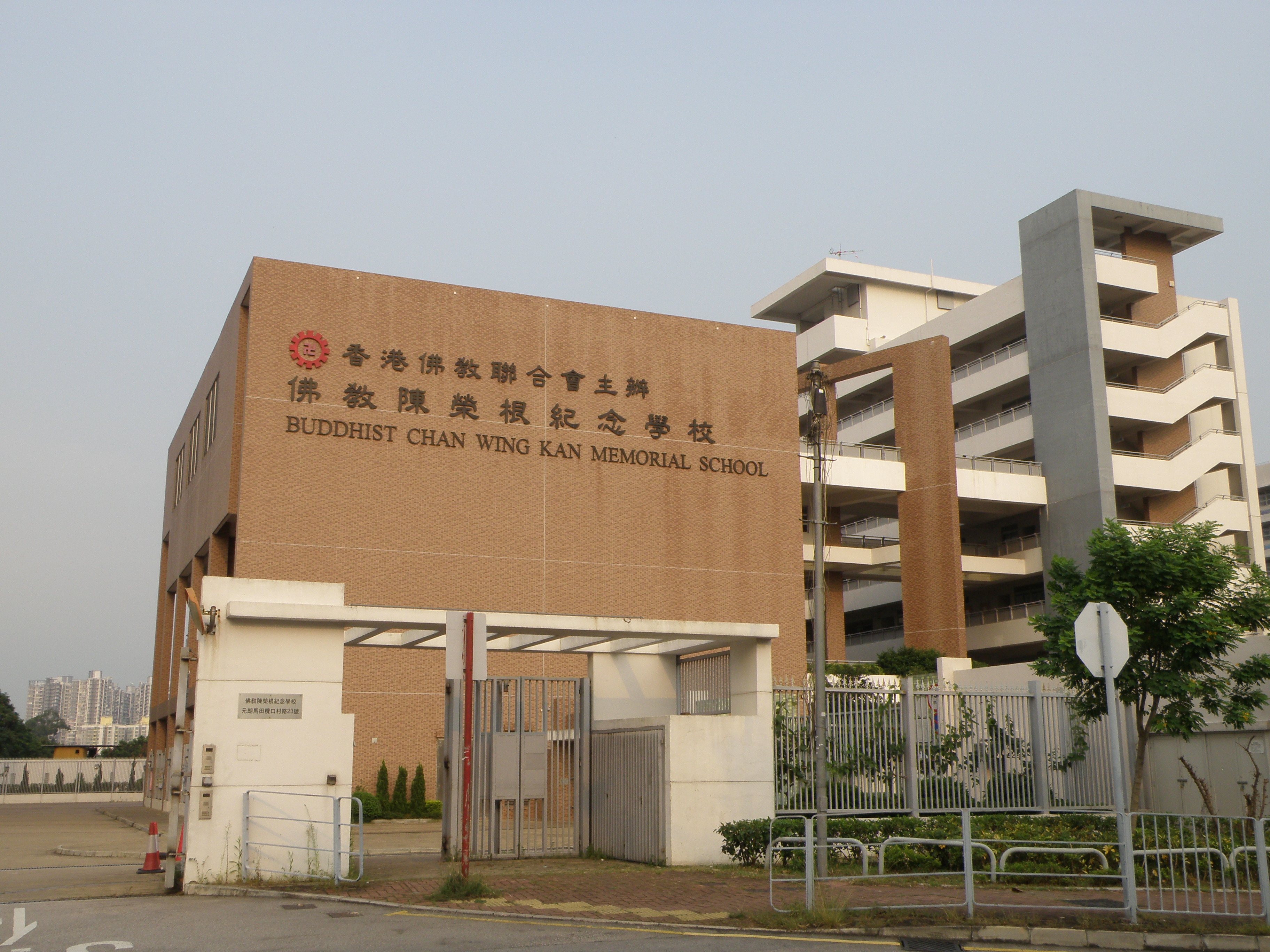 Buddhist Chan Wing Kan Memorial (primary) School in Yuen Long, Hong Kong.